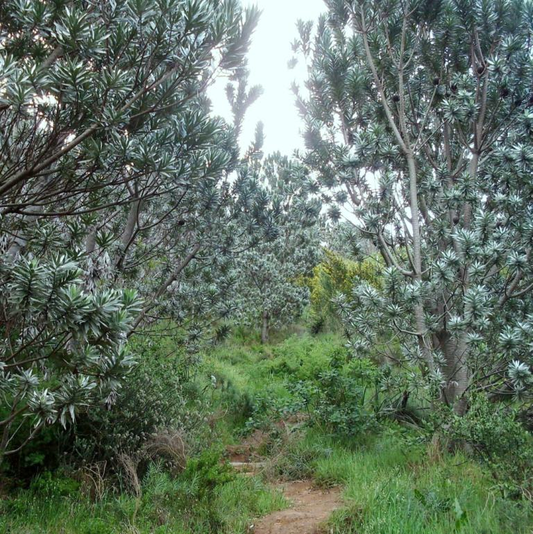 Leucadendron argenteum. Table Mountain path through Silvertree forest. Cape Town.